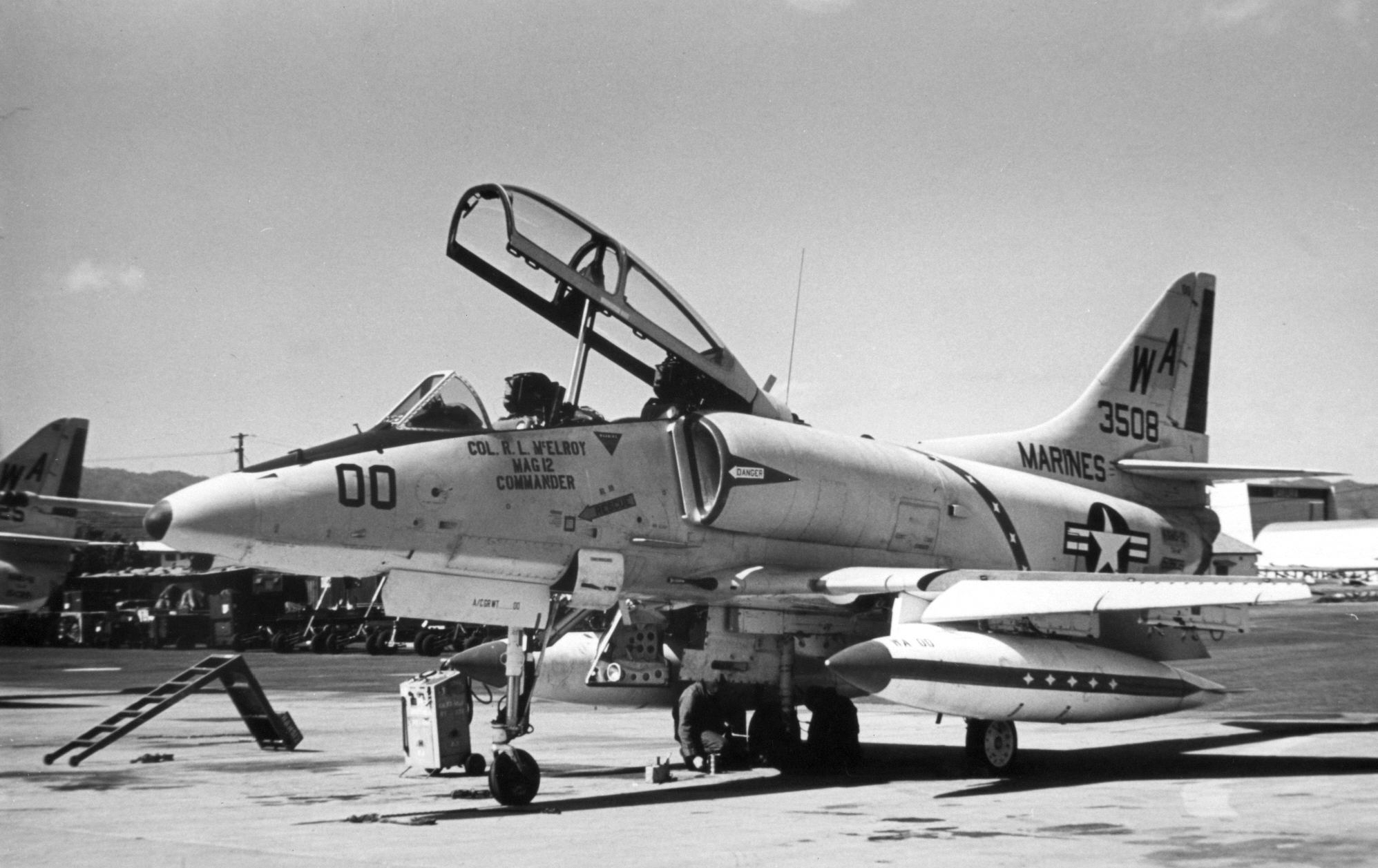 A U.S. Marine Corps Douglas TA-4F Skyhawk (BuNo 153508) of Headquarters and Maintenance Squadron 12 (H&MS-12) on the ground at Iwakuni, Japan. This aircraft was shot down by a 9K32 "Strela-2" missile (NATO reporting code: SA-7 Grail) 16 km south-east of Da Nang, Vietnam, on 26 May 1972 while strafing North Vietnamese tanks. Both crew ejected and were rescued.